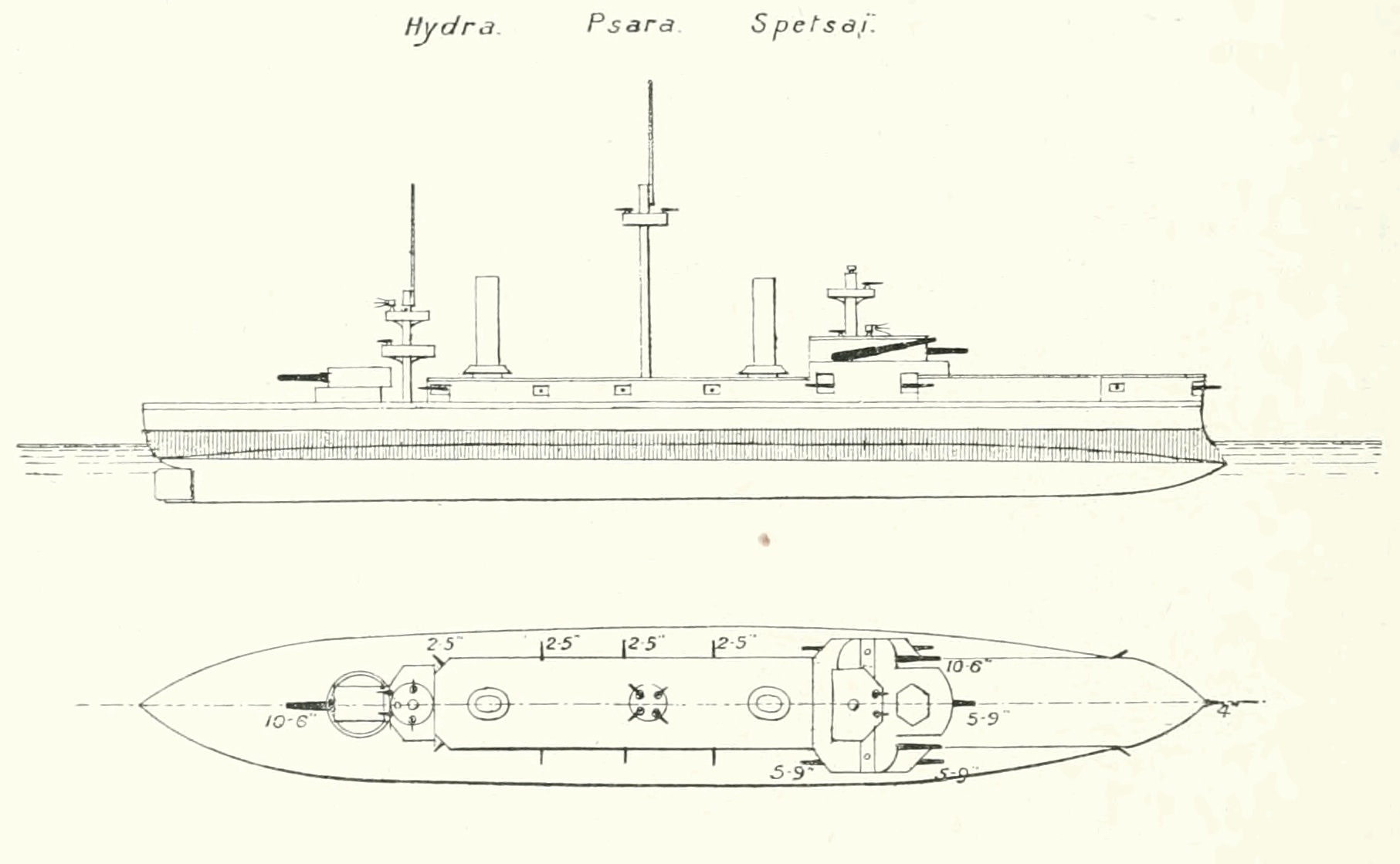 Sketch of the Greek coast defence battleships Hydra class.